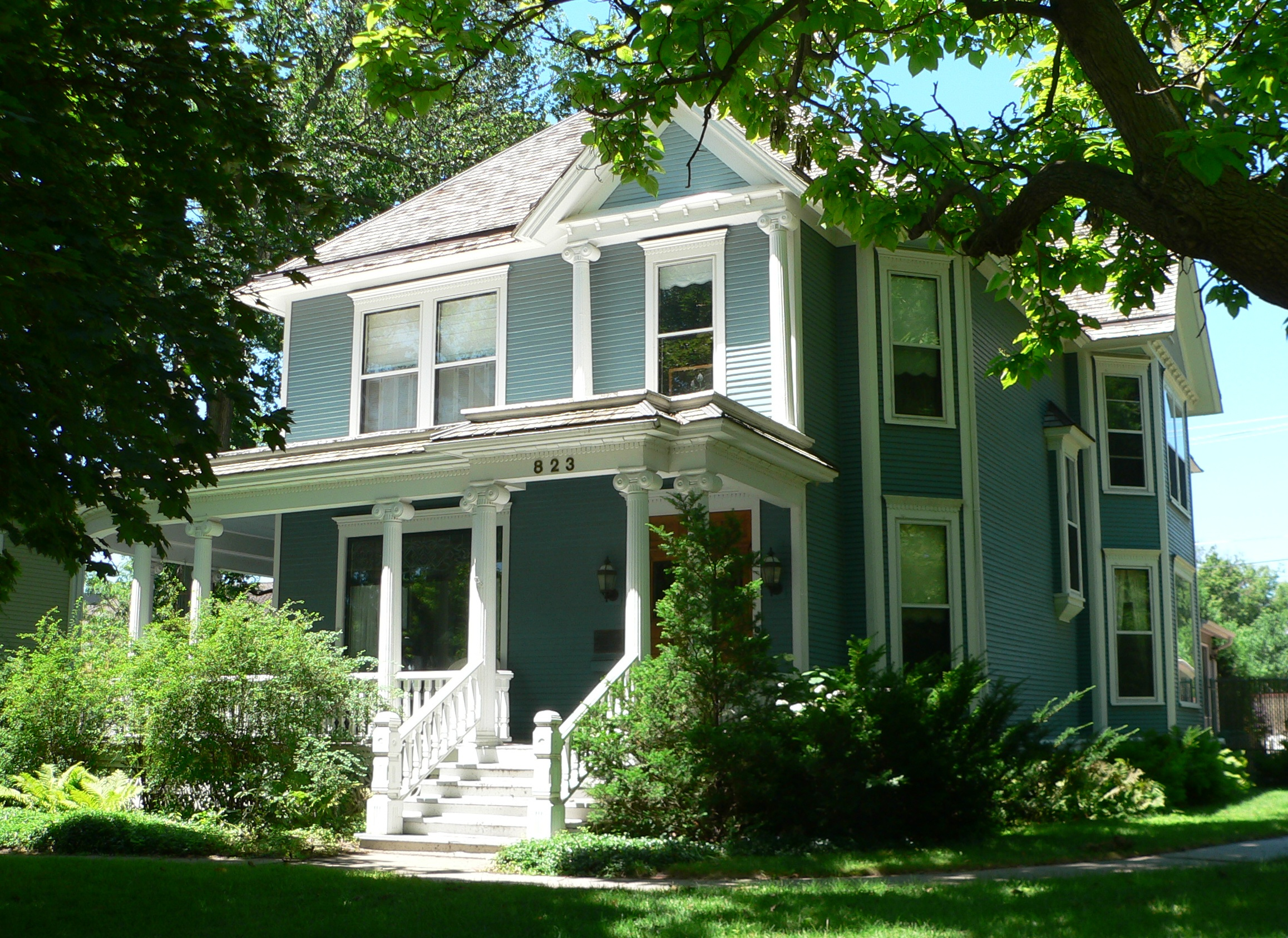 William Brach House at 823 N. Lincoln Avenue in Hastings, Nebraska; seen from the northeast. The house was built ca. 1884 in Queen Anne style; in a remodelling ca. 1900, Classical Revival elements were introduced. The house is listed in the National Register of Historic Places.